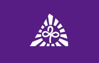 Flag of Miyashiro Saitama